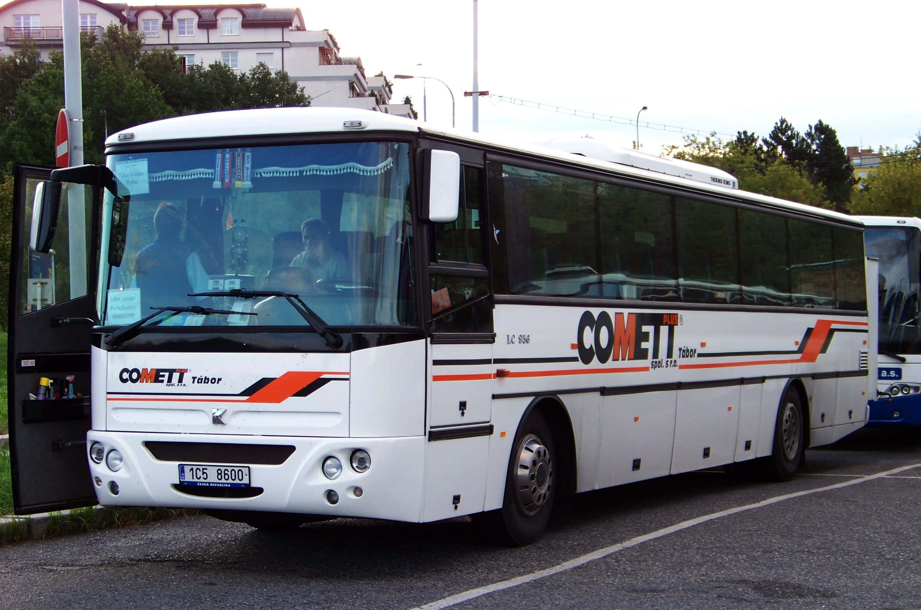 Prague-Chodov, the Czech Republic. Roztyly bus station. Karosa LC 956 of Comett Plus. - OpenStreetMap(Info)